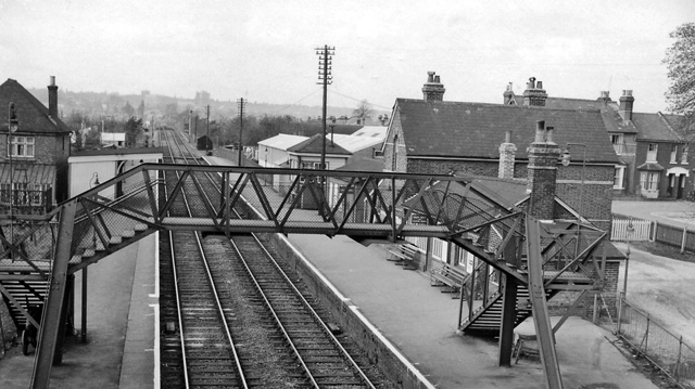 Bitterne Station. View NW, towards Southampton; Southampton - Portsmouth secondary main line.